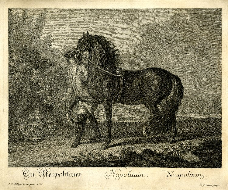 Neapolitan horse